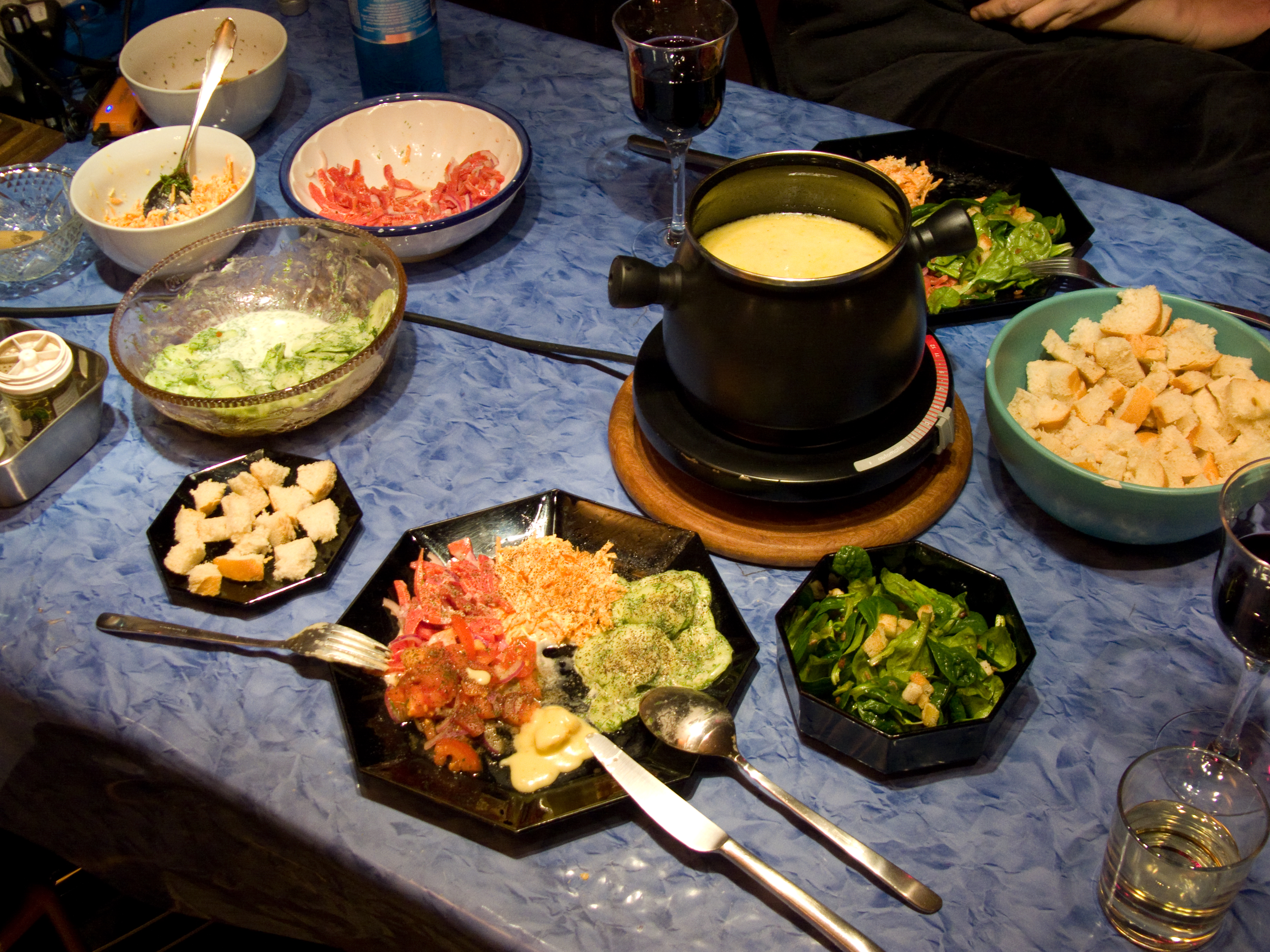 Cheese fondue with several kinds of salads, baguette, Retsina and red wine. - Our recipe (in German) you can find here